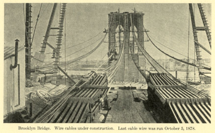 The Brooklyn Bridge linked Brooklyn with Manhattan enabling Wall Street workers to have additional options for commuting. Cables being strung in 1878. Source: [1]. Picture published before 1923.